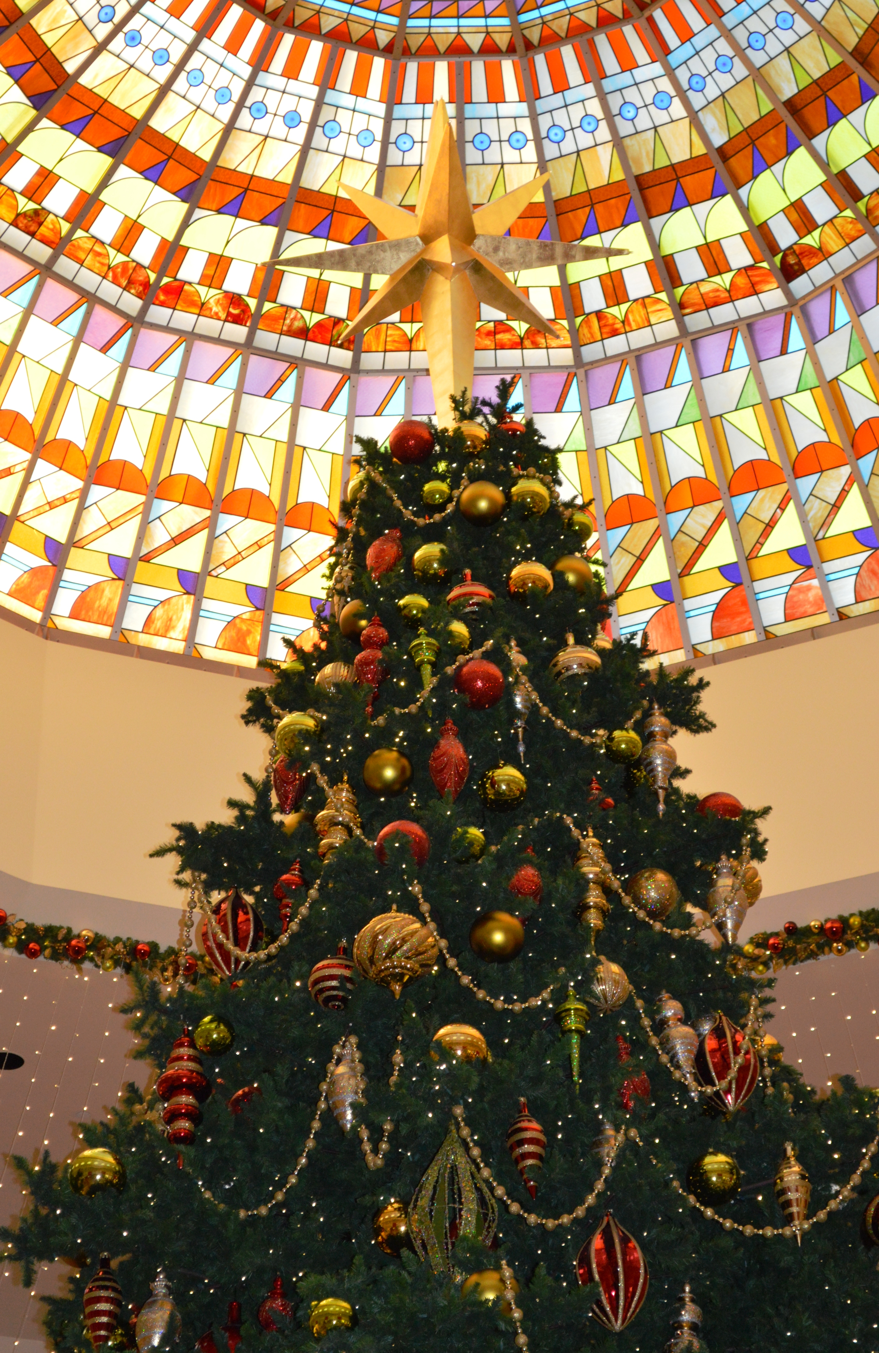 Christmas tree in Jewel Court of South Coast Plaza (SCP) in Costa Mesa, California, U.S.A. There was another SCP Christmas tree outside (behind the Westin South Coast Plaza across Bristol Street), which was 96 feet (29 m) tall. To me, this indoor tree looked taller, but it may have been an optical illusion. As a comparison, Fashion Island's Christmas tree for 2013 was 90 feet (27 m) tall.